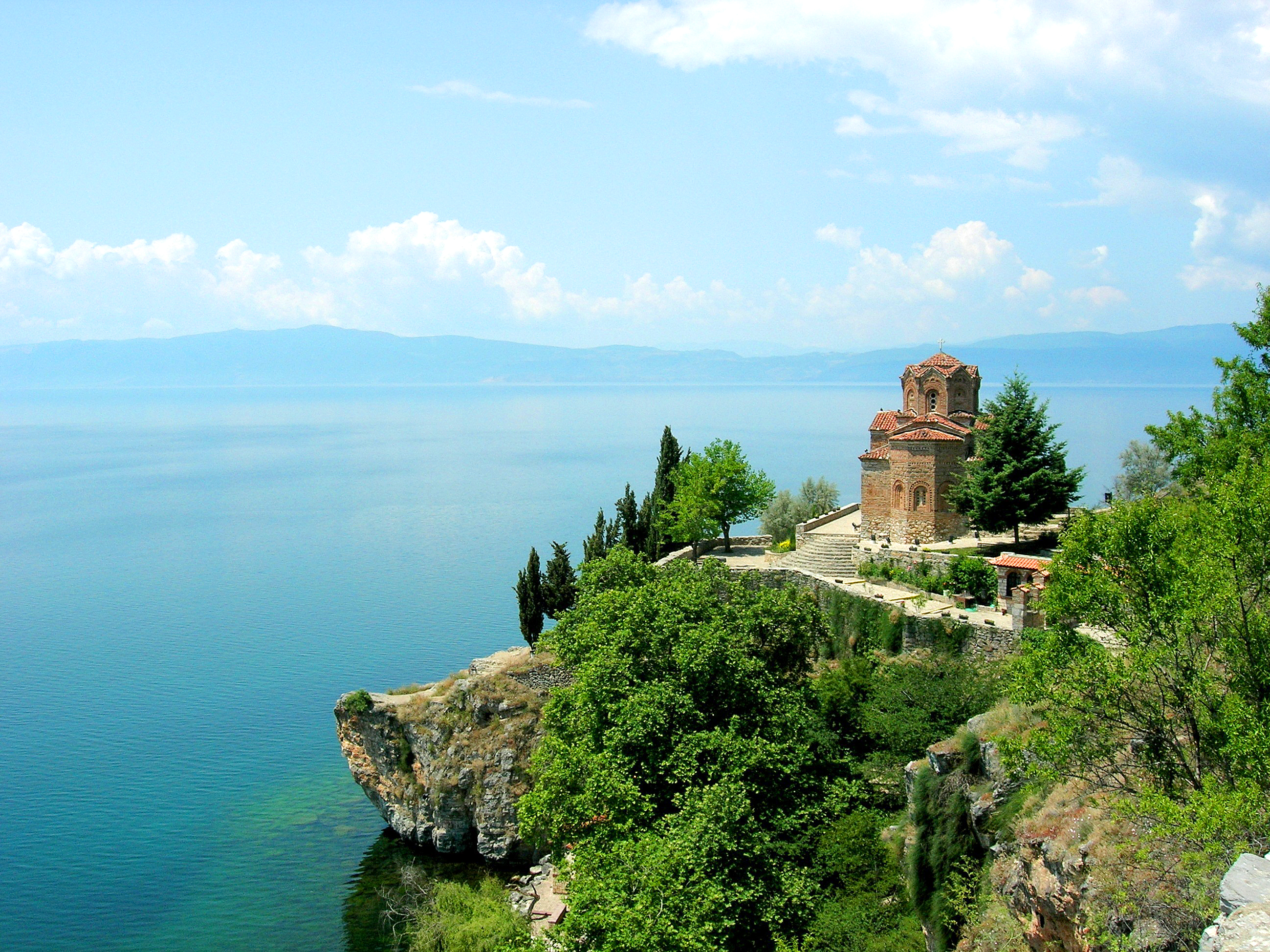 St. Jovan Kaneo church and the Lake Ohrid